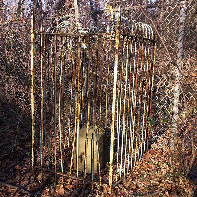 District of Columbia boundary stone NE 8, that is the stone 8 miles southeast of the northernmost corner of DC. Placed in 1791-1792 by Andrew Ellicott and Benjamin Banneker. for a map of these stones.